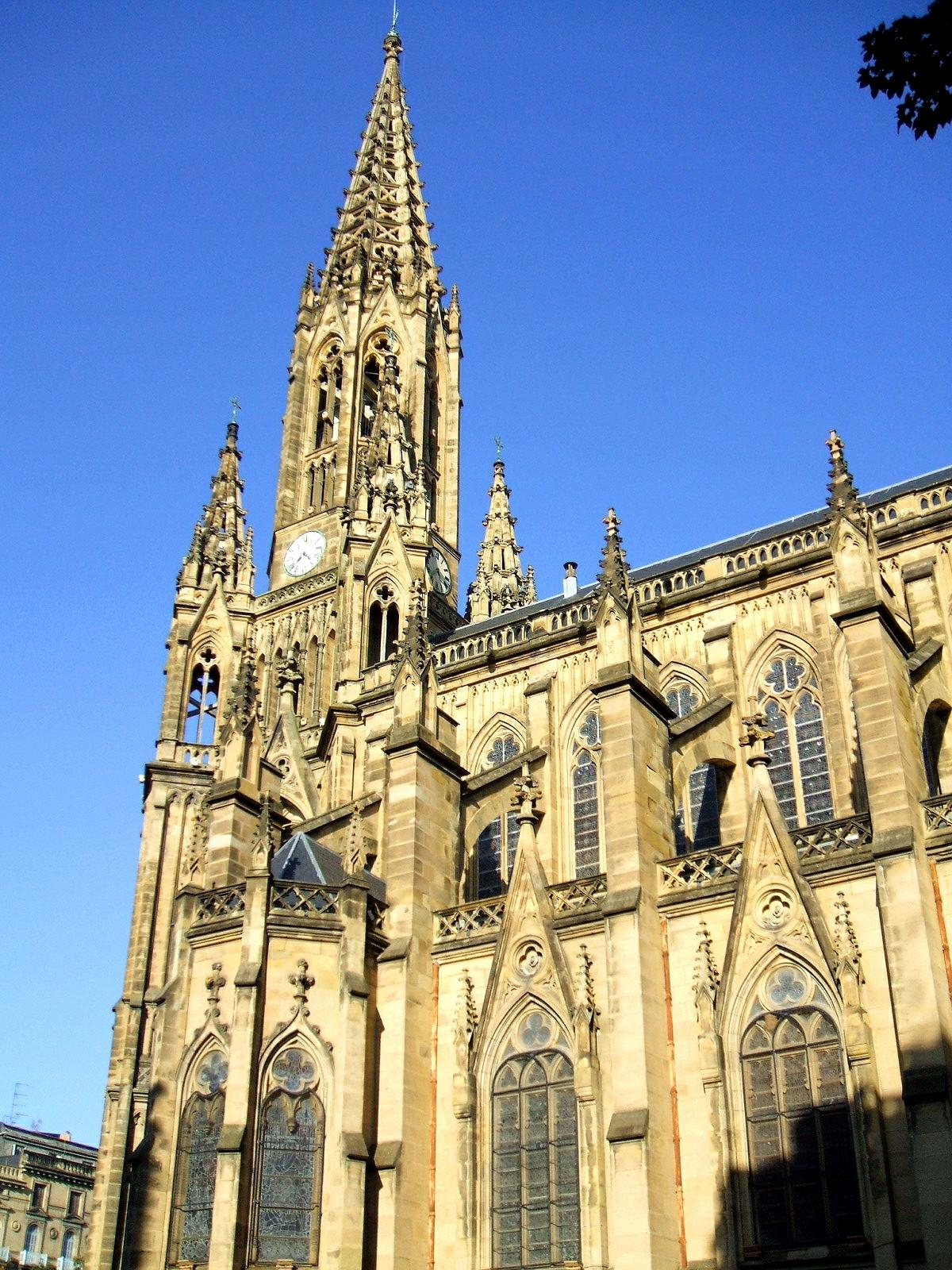 Catedral del Buen Pastor de San Sebastián (Guipúzcoa, País Vasco, España)